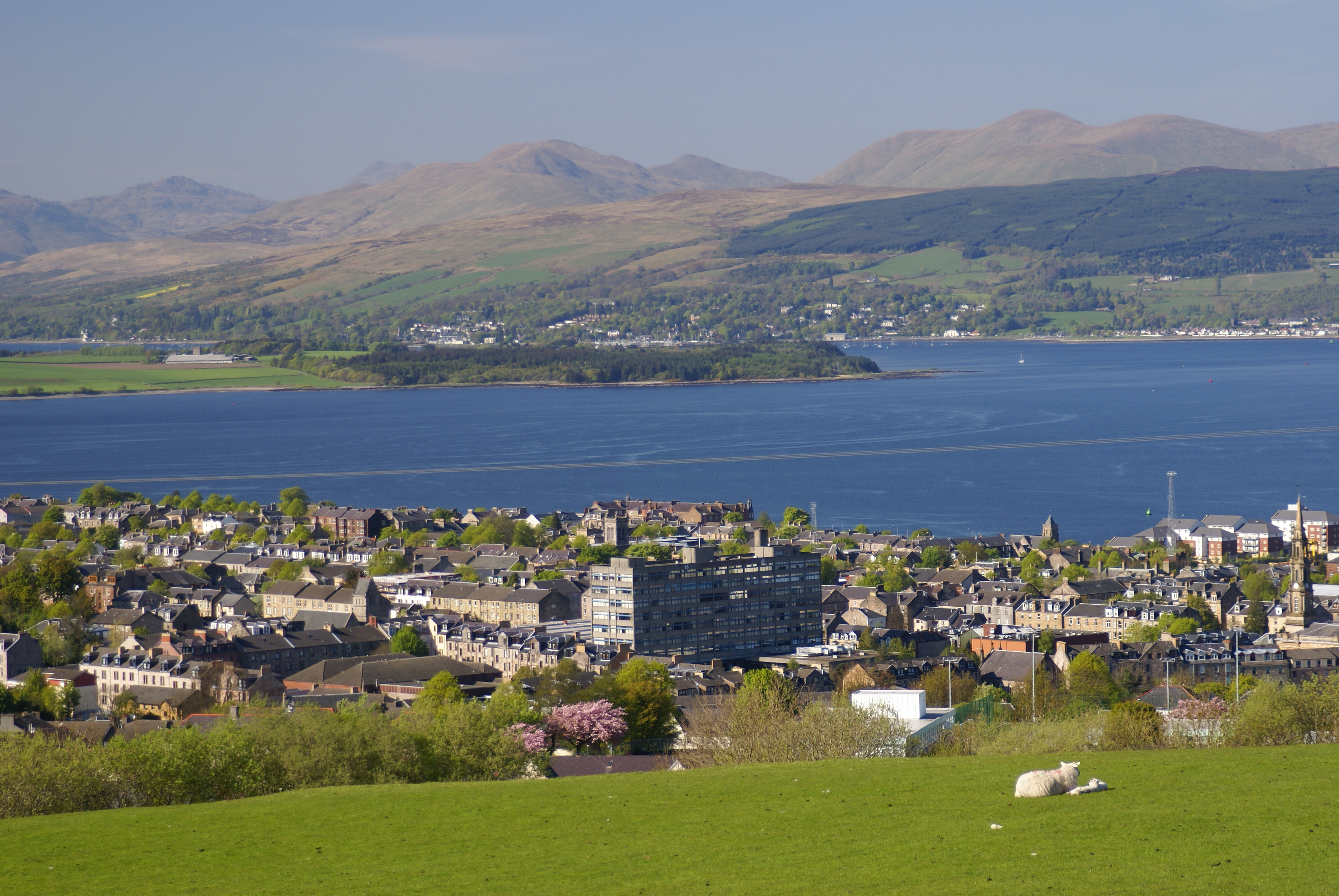 View over Western Greenock towards Gare Loch.